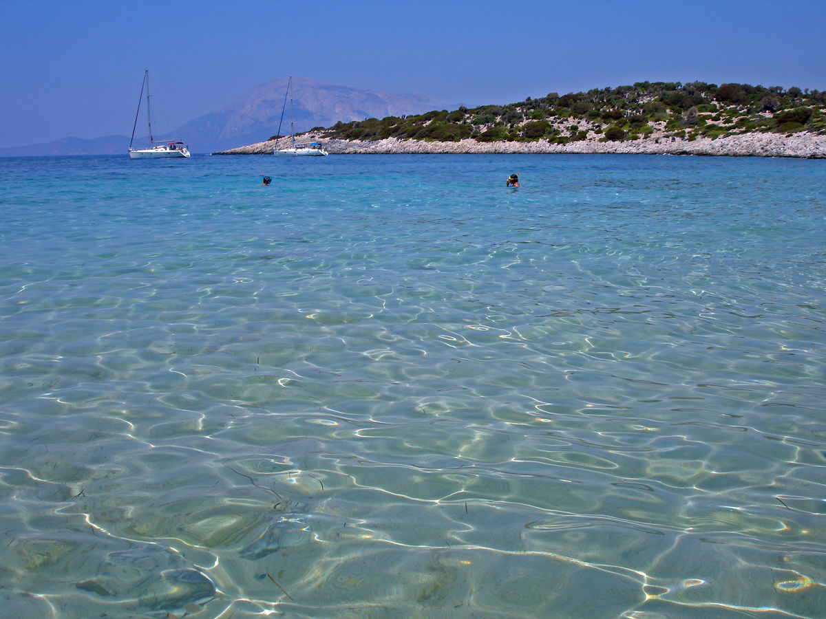 Psalida (in Greek Ψαλίδα) beach; beautiful white sands and turquoise waters. At the distant background Mount Kerketeas of Samos. Image by Nikolaos Angelis.